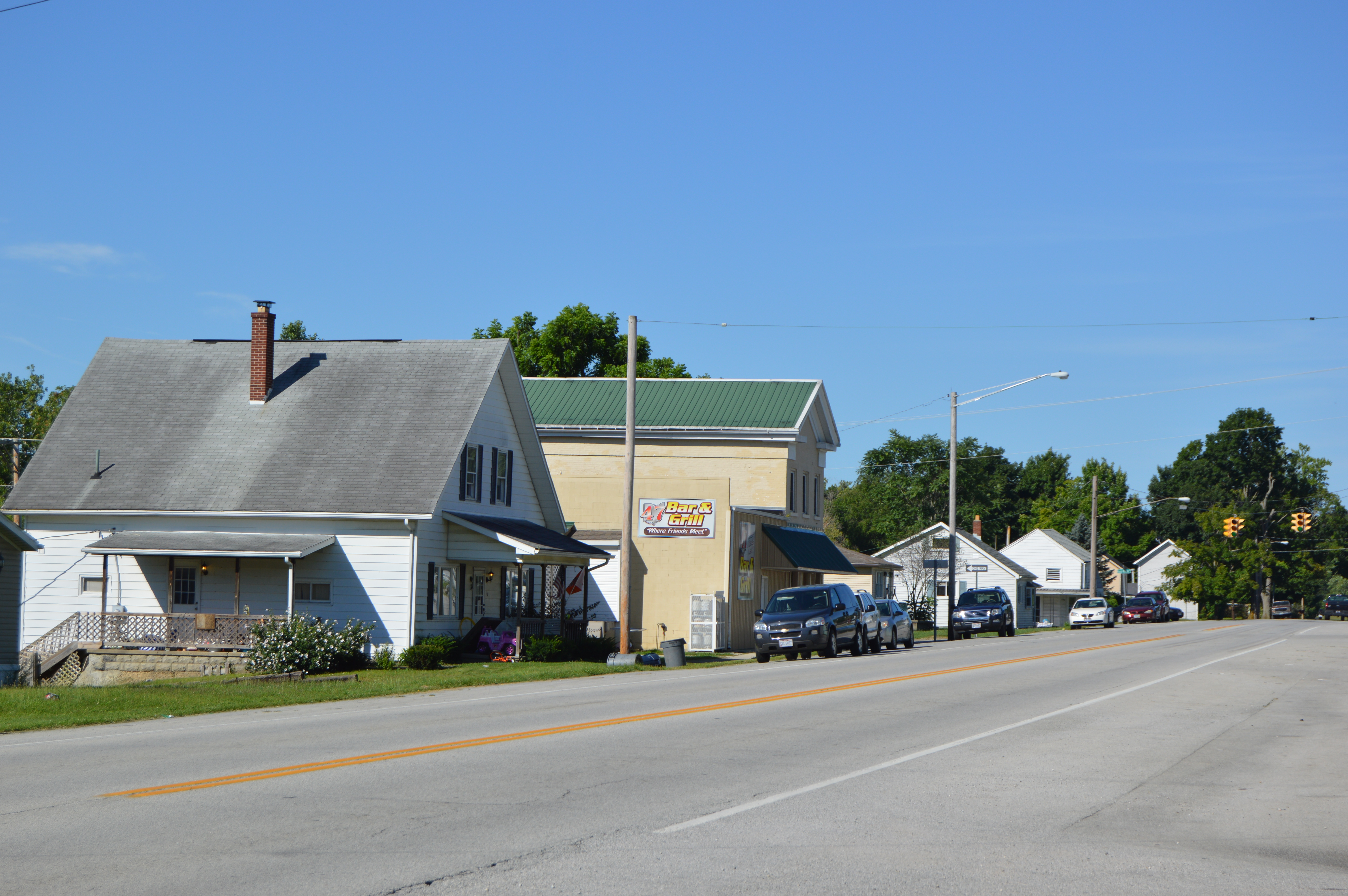 Buildings on the southern side of Main Street (State Route 47) just east of the Elm Street intersection in Port Jefferson, Ohio, United States. Note the exceptional Greek Revival brick commercial structure at the center, with its partial pediment; it may well date from the canal era.